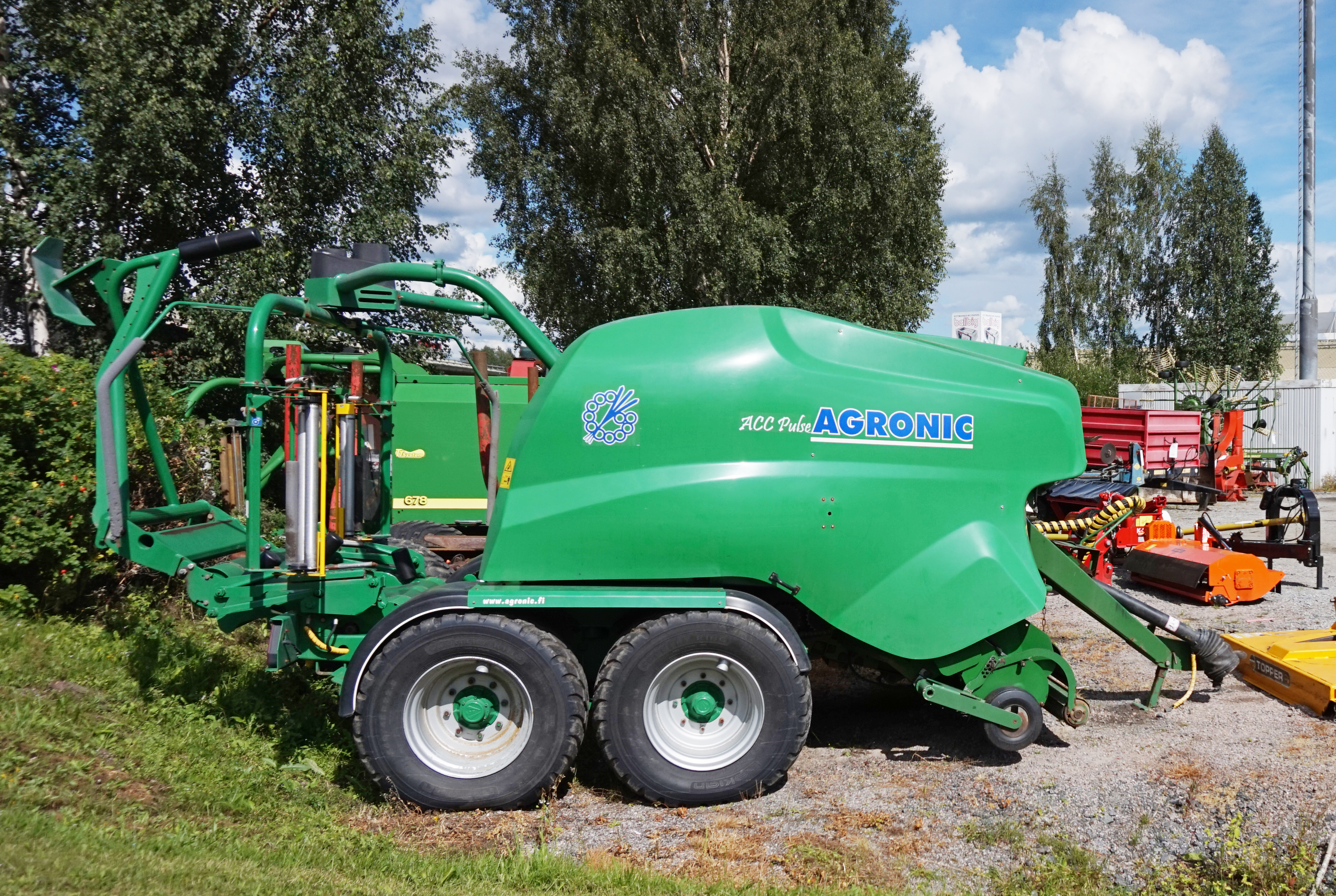 The baler machine ACC Pulse Agronic in Jyväskylä.